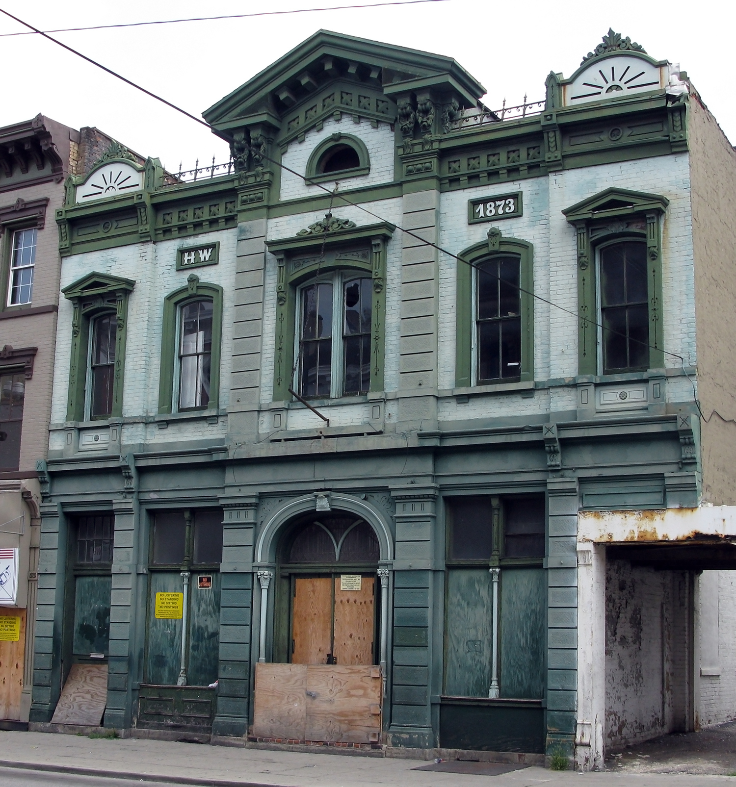 Wielert's Cafe, once the most famous beer garden in Cincinnati, now abandoned at 1408 Vine Street in Over-the-Rhine.